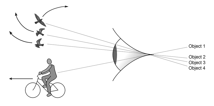 Schematic diagram of the FINST model